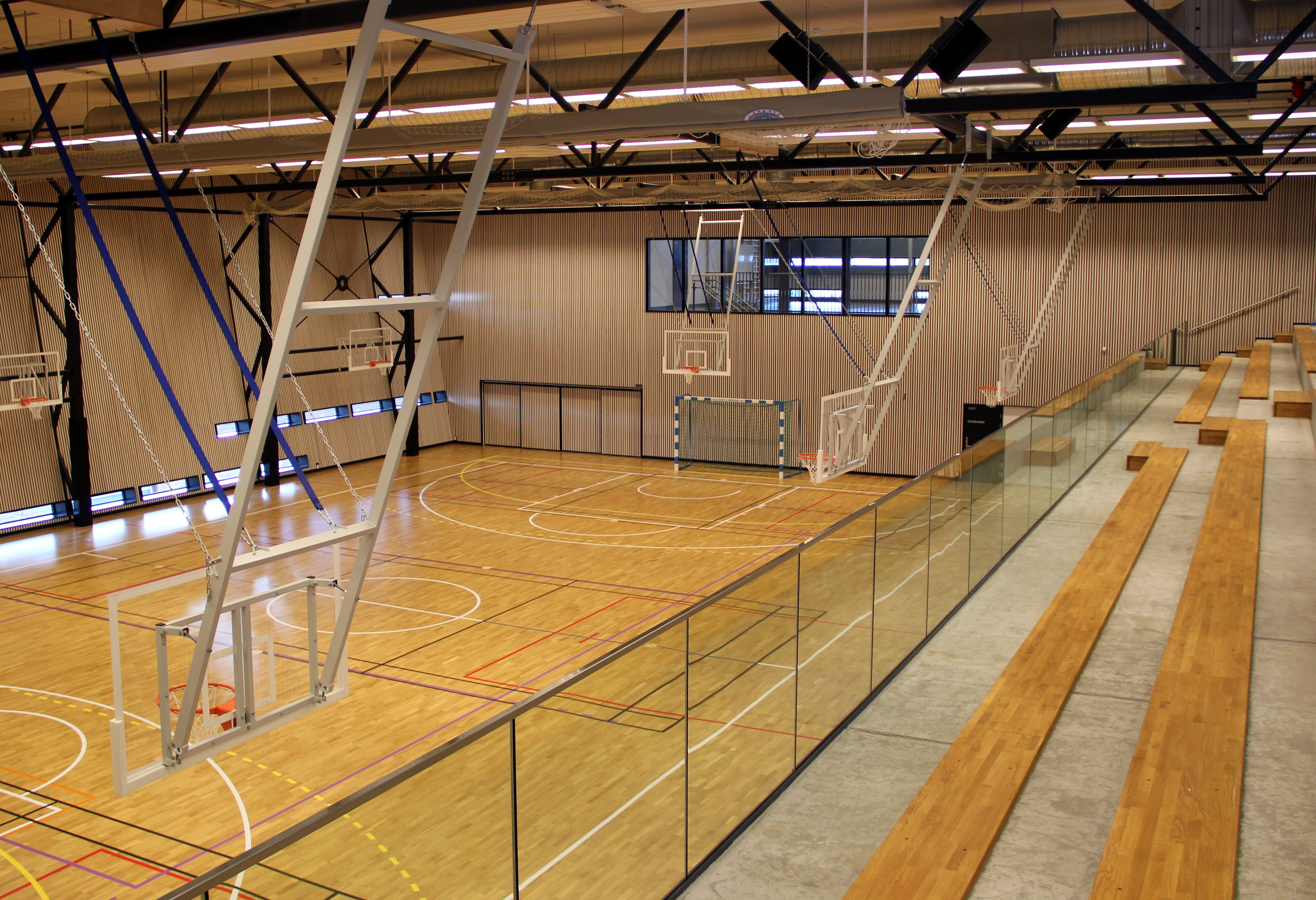 Kuben indoor sports- and basketballarena at Kuben Upper Secondary School